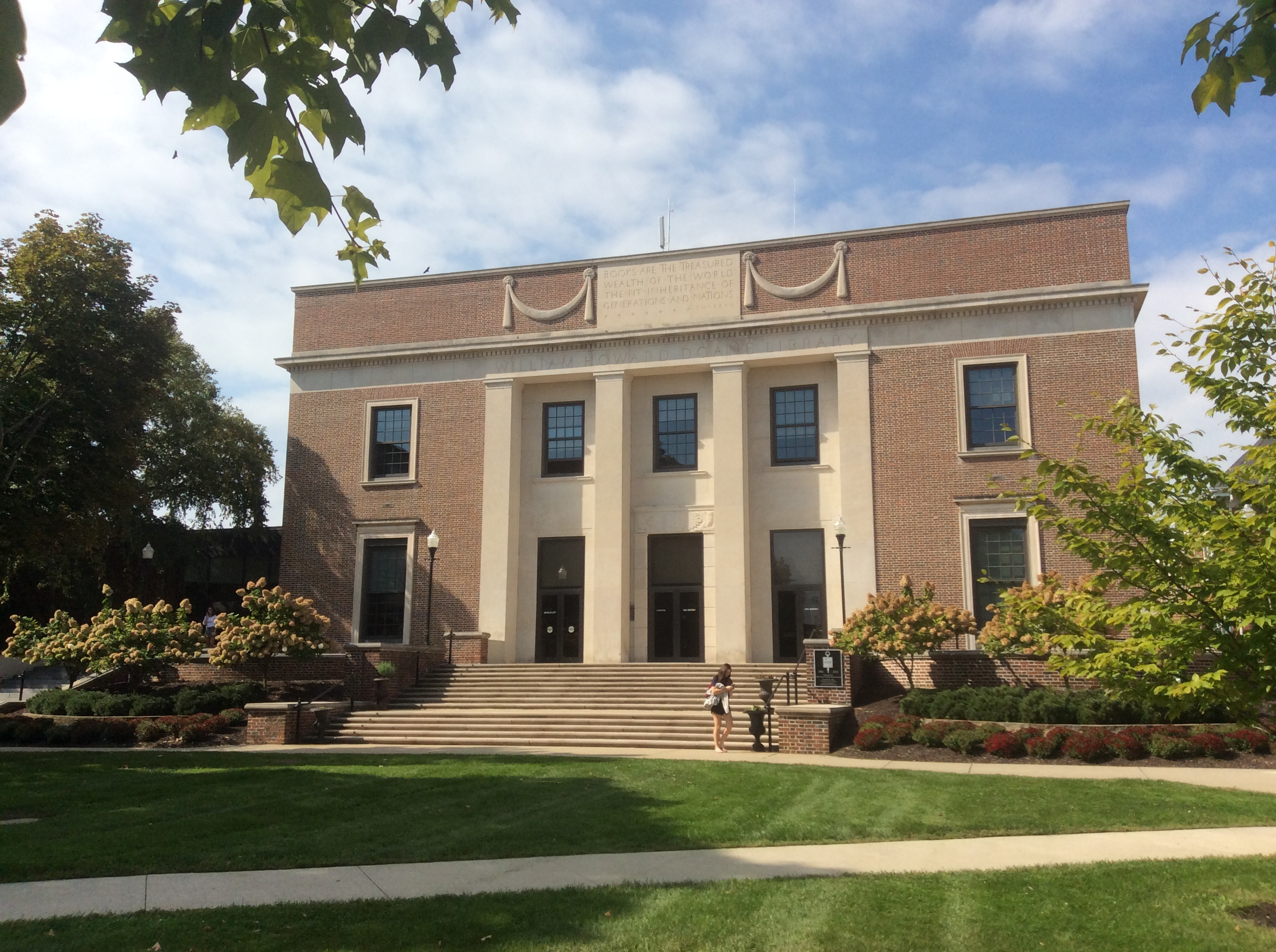 William Howard Doane Library (1937), William Gehron, architect, funds for the building were given as a memorial to William Howard Doane, by his daughters Marguerite and Ida Doane.